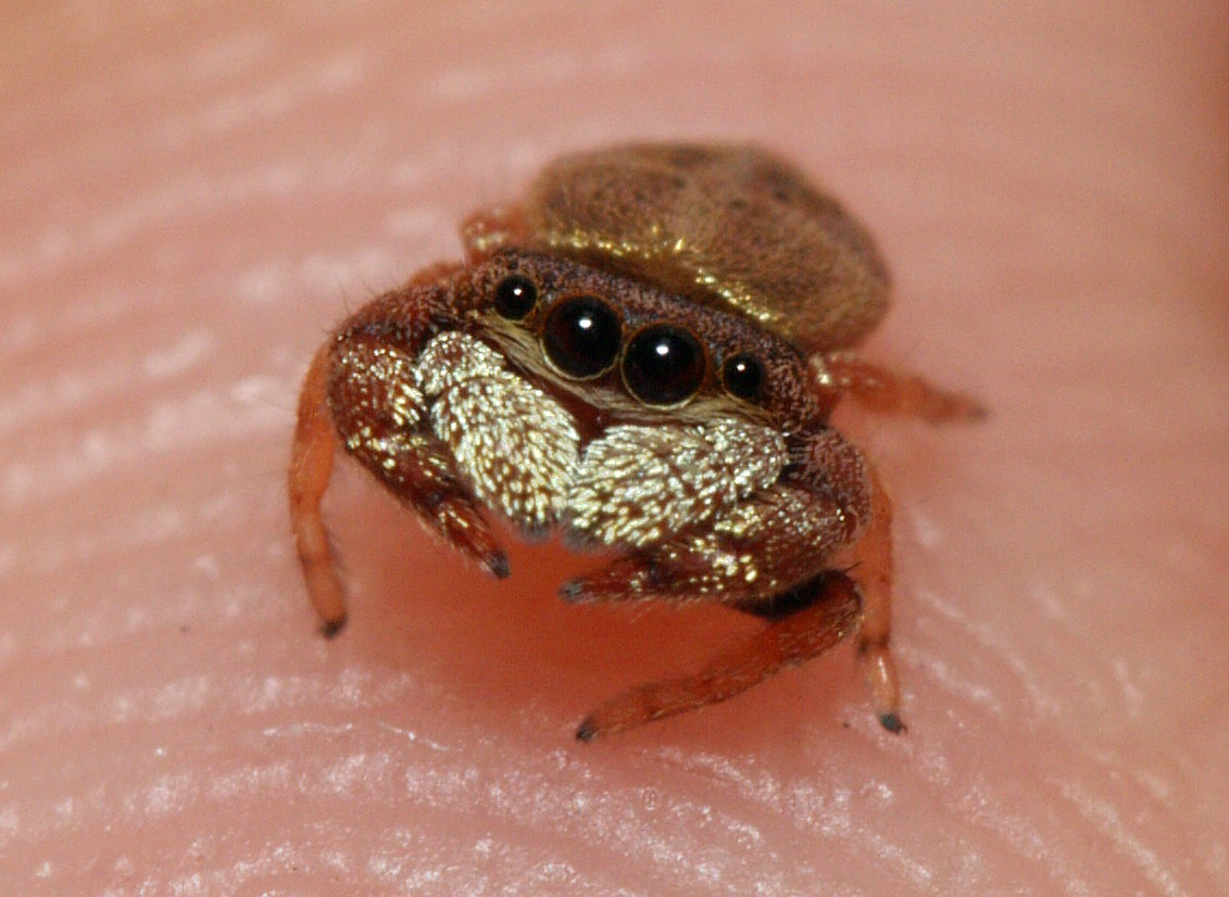 Simaetha sp. (female?) from North Point, Hong Kong.